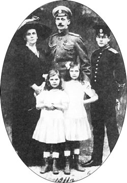 Princess Olga Valerianovna Paley Grand Duke Paul Alexandrovich of Russia Vladimir Pavlovich Paley Irina Pavlovna Paley Natalia Paley